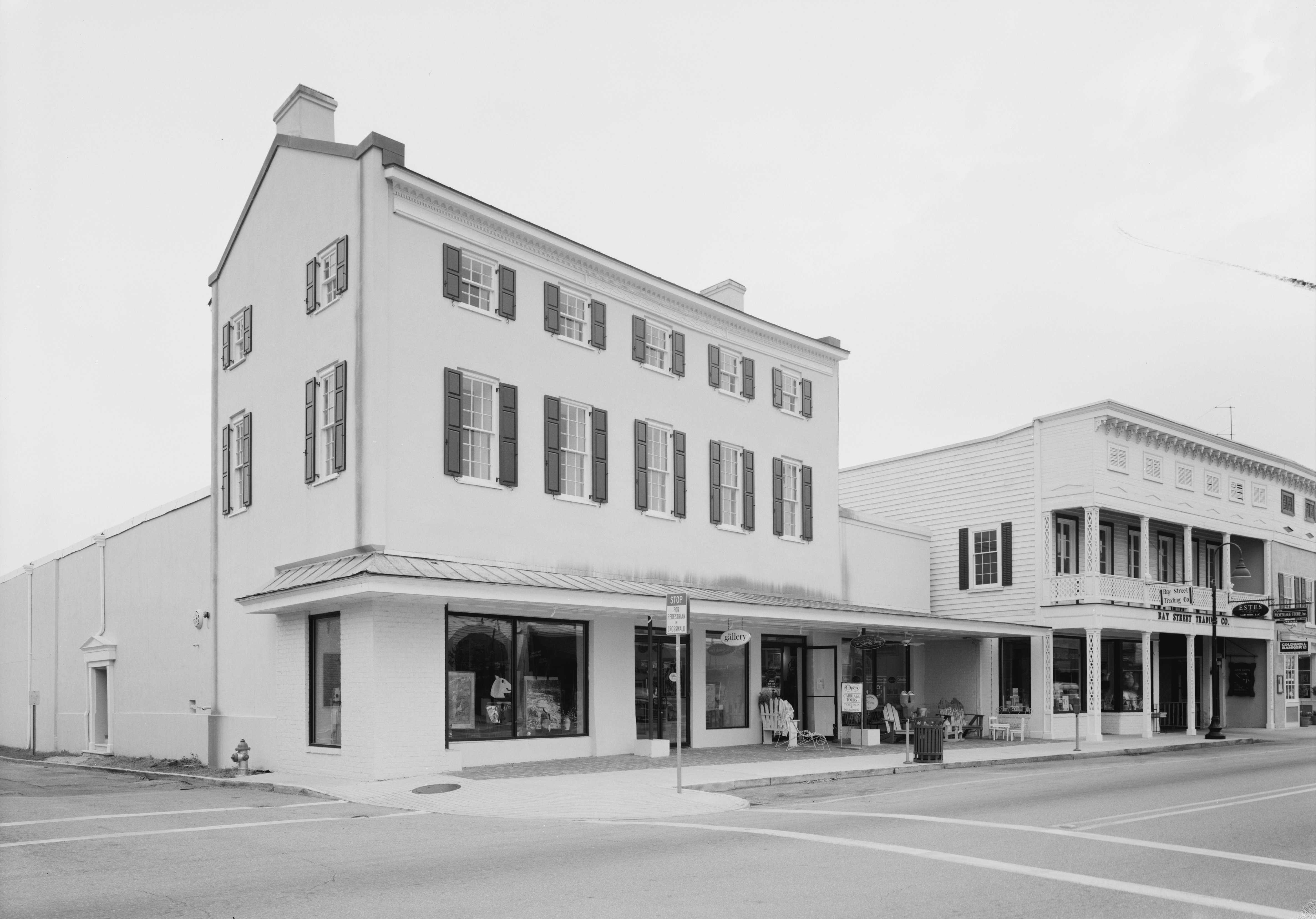 Saltus-Habersham House, 802 Bay Street, (Beaufort, South Carolina)) (cropped)